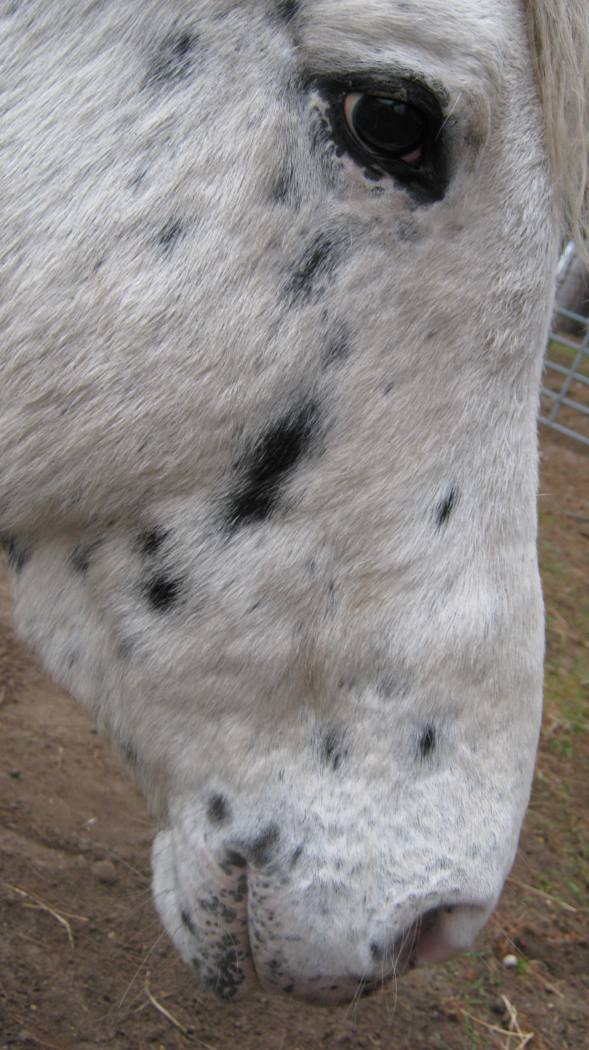 The head of an Appaloosa horse, showing the characteristic skin mottling and white eye sclera of that breed.